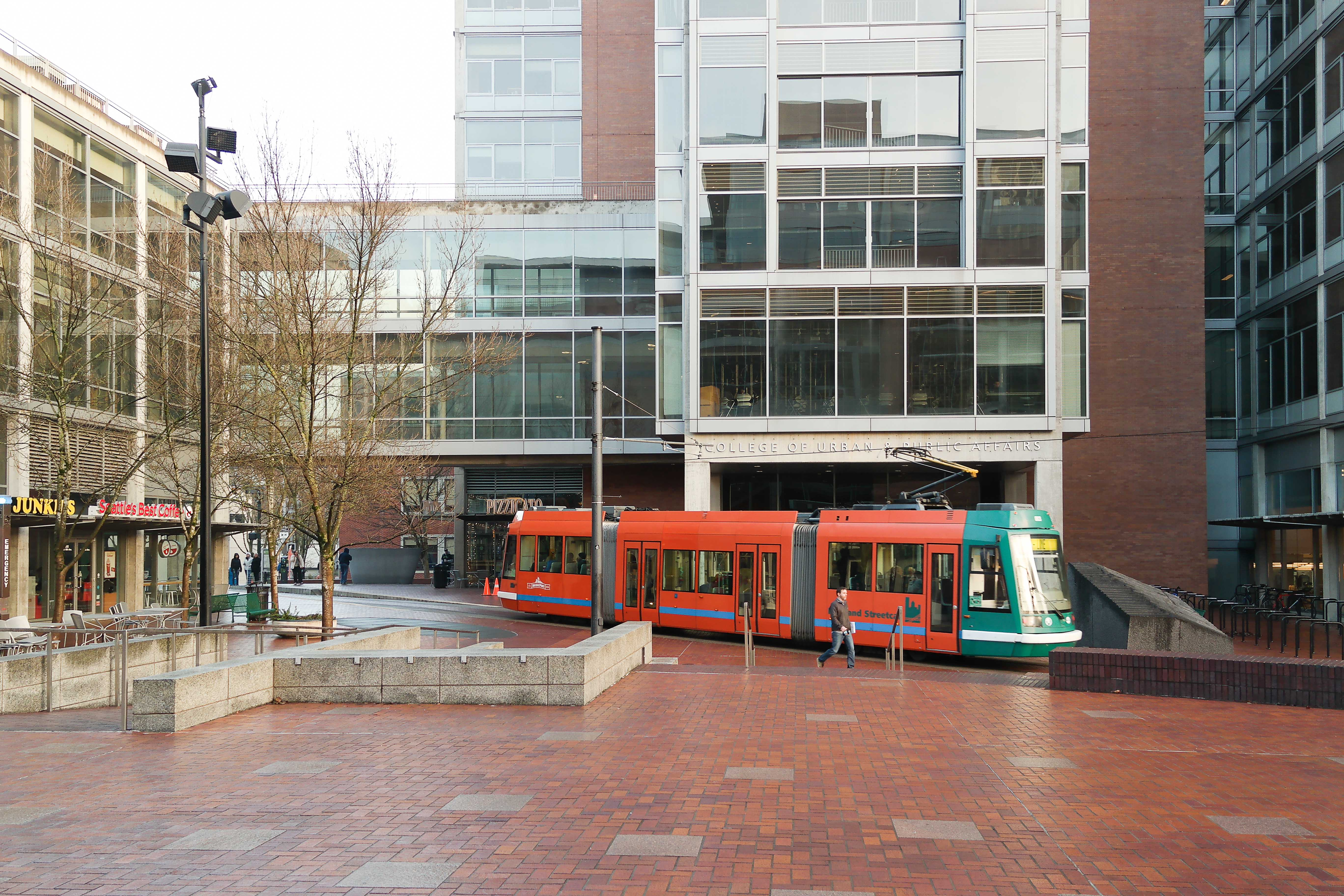 Portland Streetcar car No. 003 at Urban Center Plaza